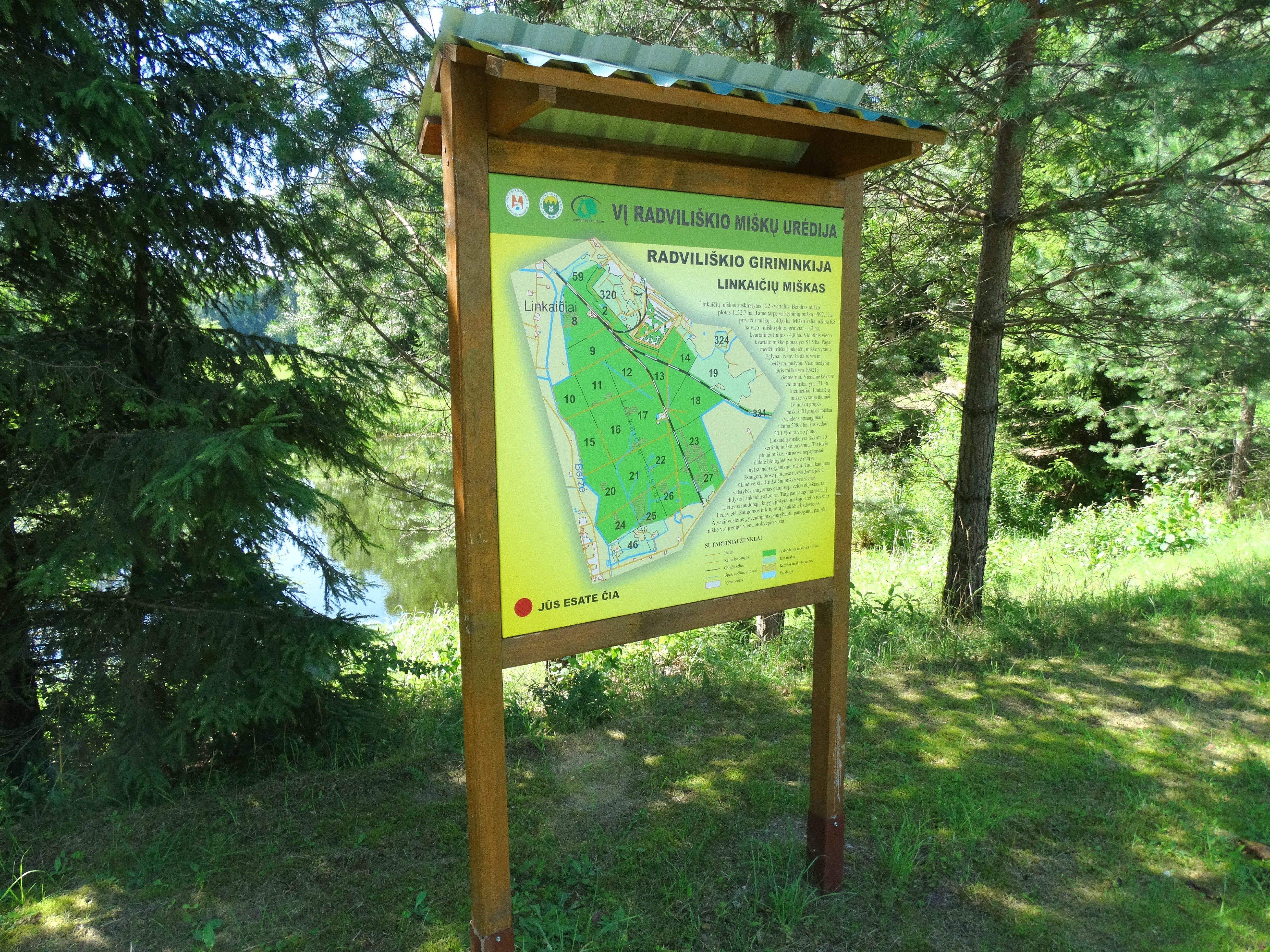 Linkaičiai forest, Radviliškis district, Lithuania